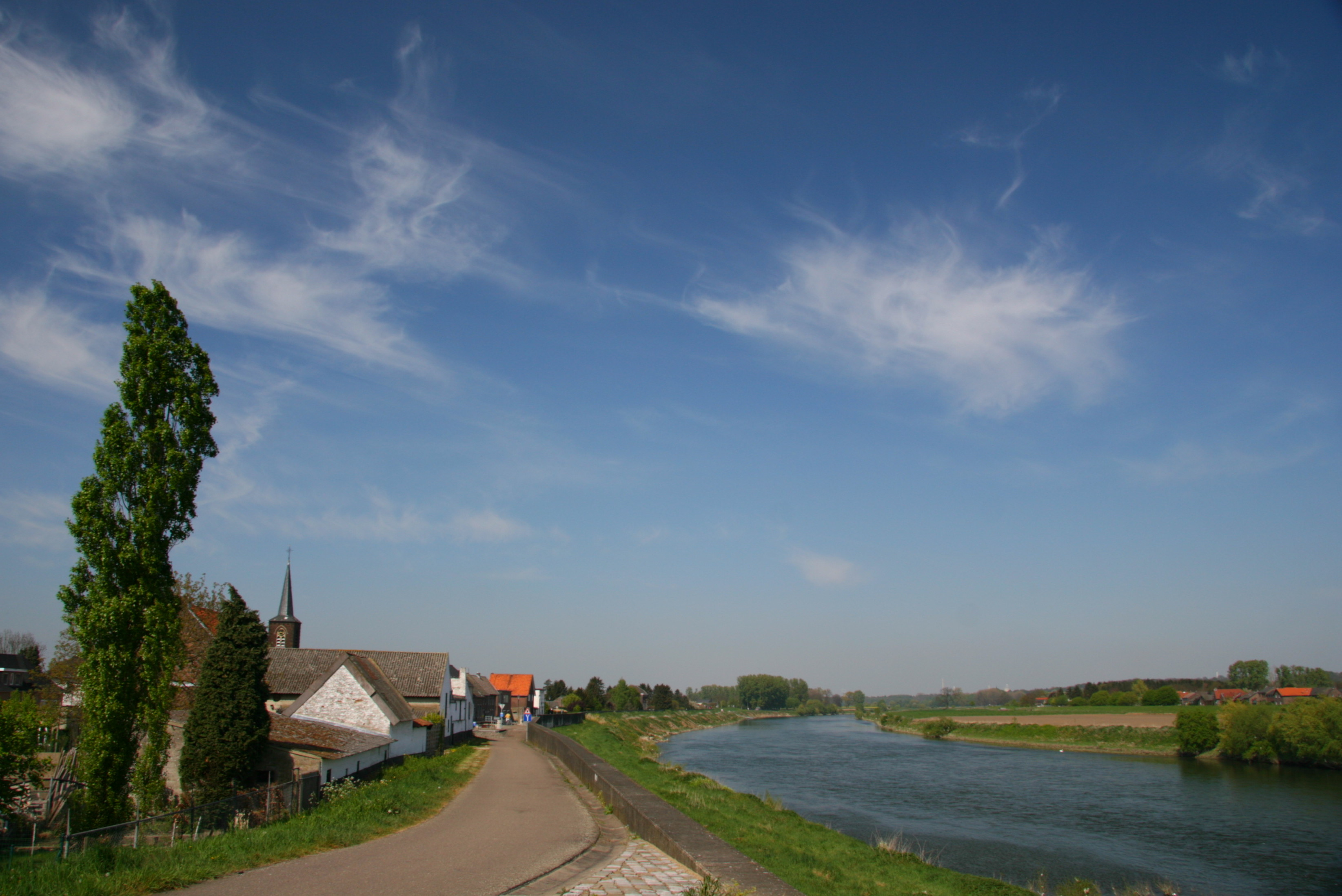 A view of the Meuse River at Uikhoven, Belgium.